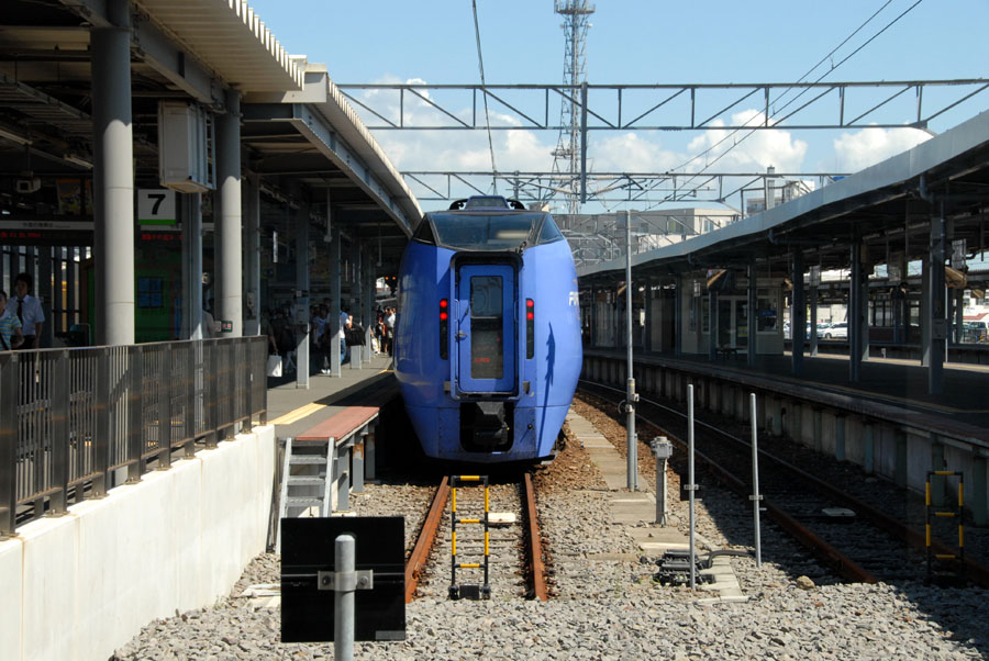 The platform at Hakodate Station, with Limited Express Train "Super Hokuto".